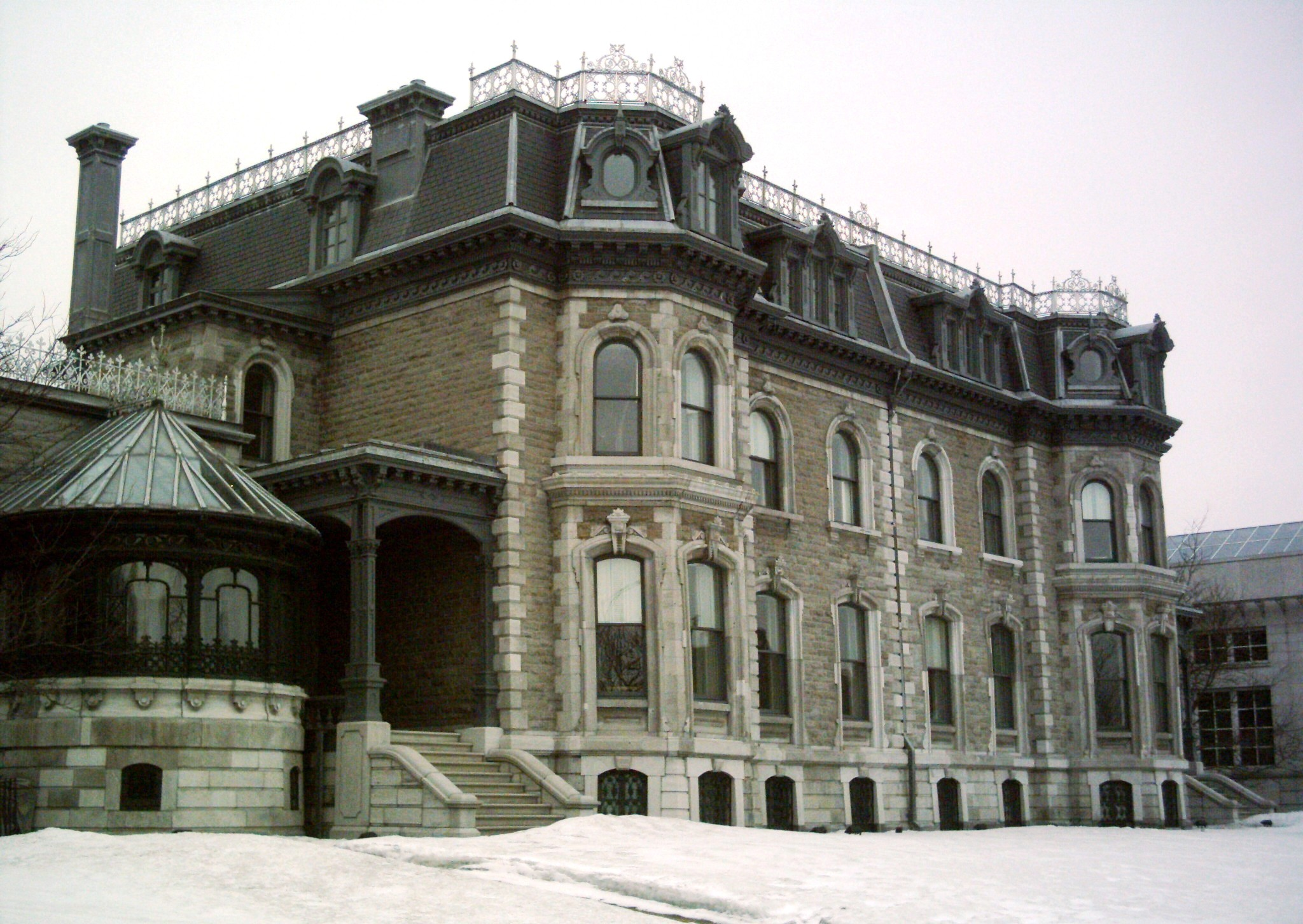 Shaughnessy house in Montreal, part of Canadian Center for Architecture